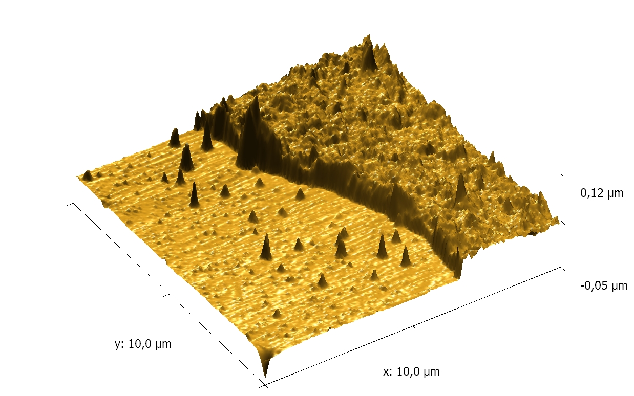 3D AFM image of edge of ultrathin polymer film